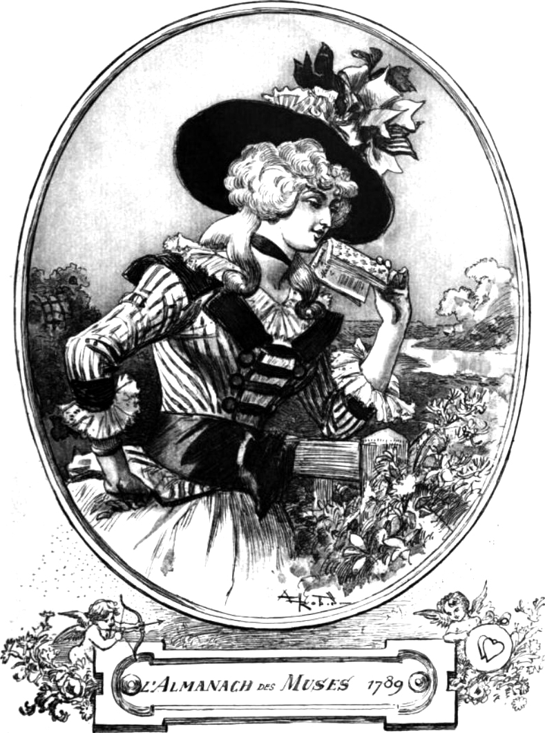 First page of Almanach des Muses by Claude-Sixte Sautreau de Marsy (1740-1815).